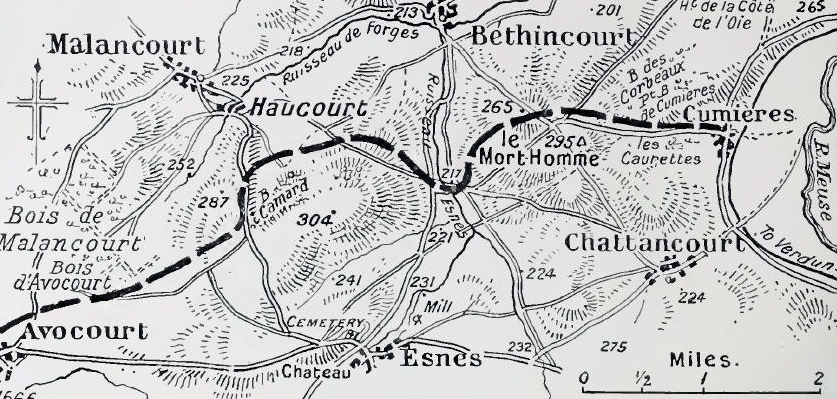 Verdun and vicinity, May 1916